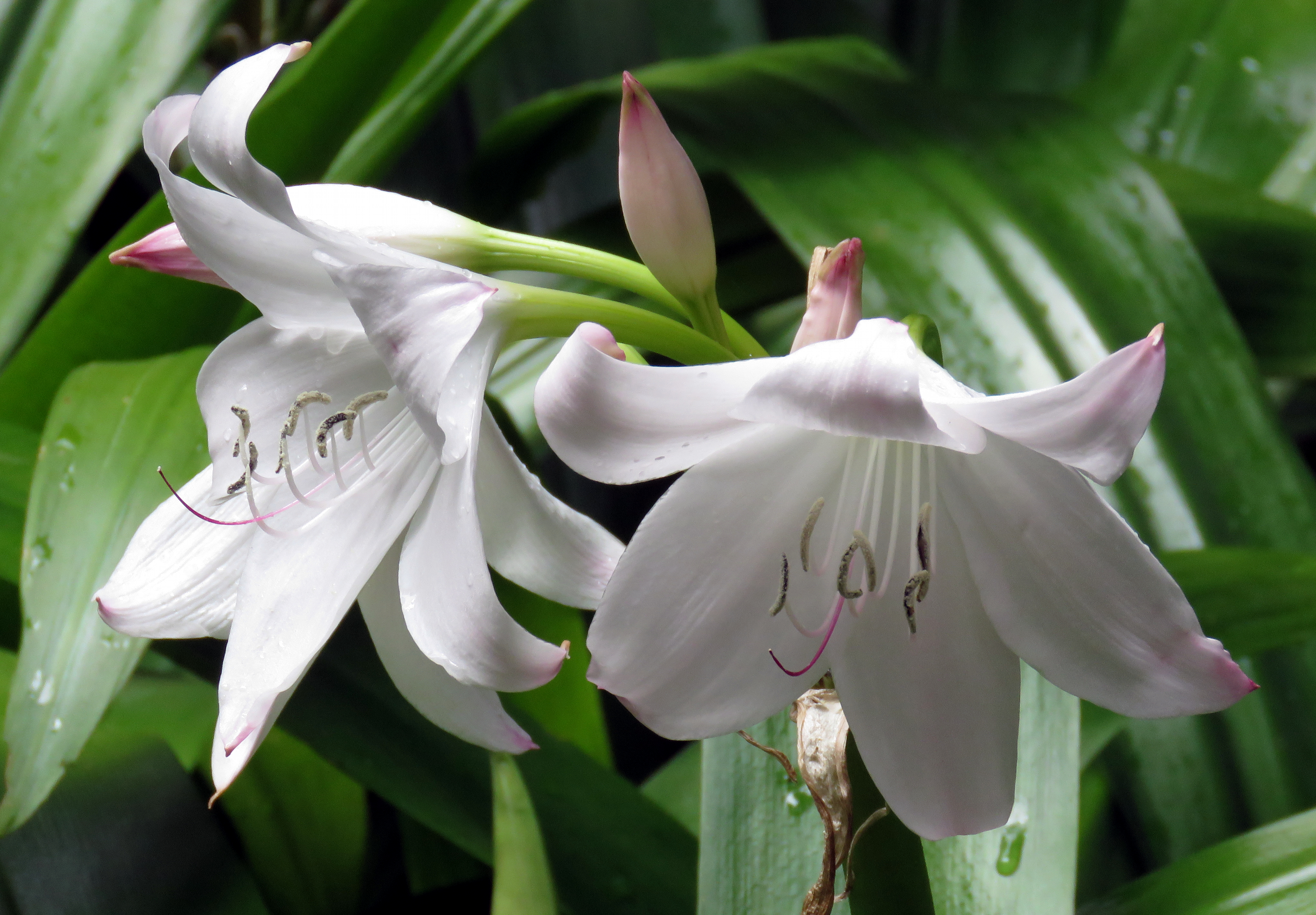 White flowers (Crinum moorei) growing in Kirstenbosch botanical gardens, South Africa.